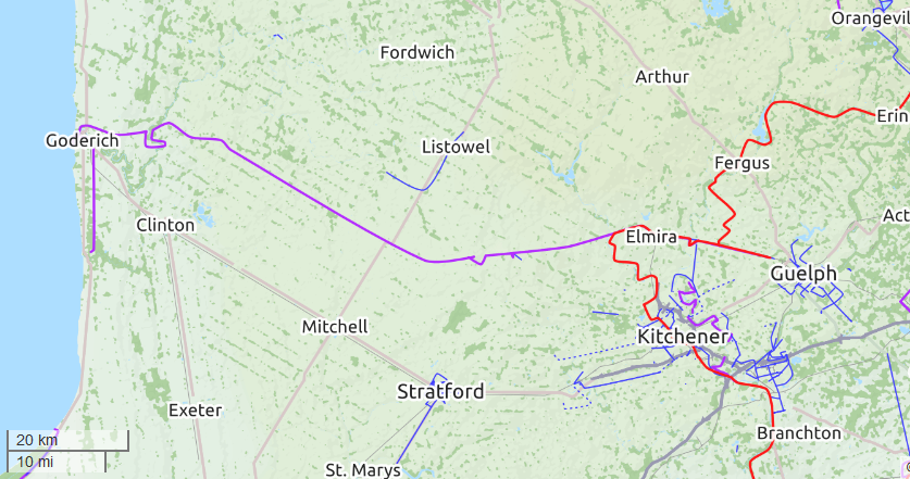 Map showing the Guelph to Goderich rail trali, which more or less follows the trackbed of the Guelph and Goderich Railway.